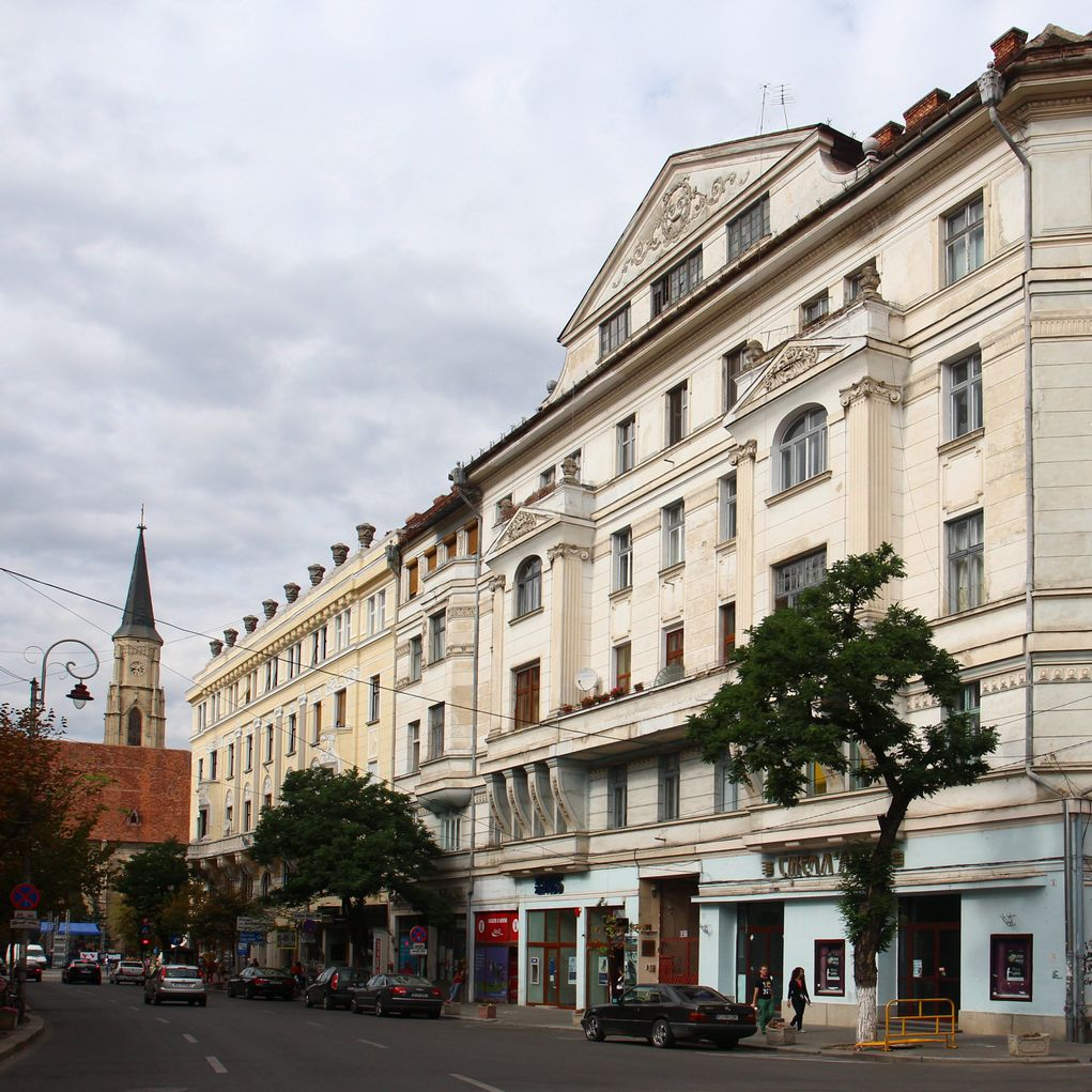 The exterior of ARTA cinema from Cluj-Napoca in 2012.